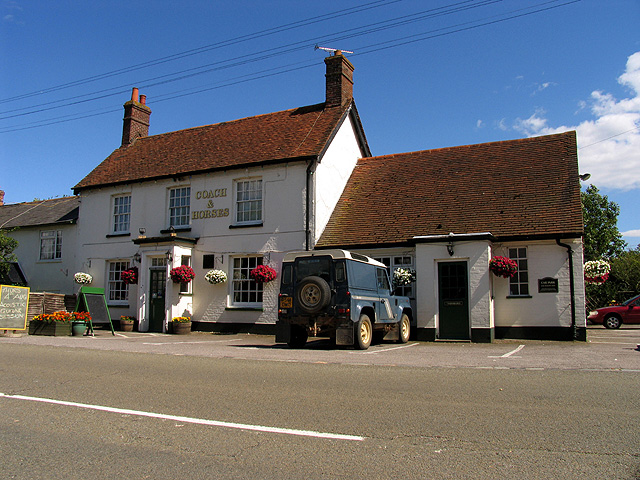 The Coach and Horses, World's End, south of Beedon, Berkshire. The road is now declassified but was part of the former turnpike linking Newbury and Abingdon.